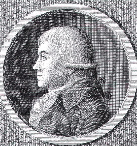 August Friedrich Wilhelm Crome